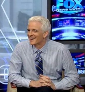 Ellis Henican on the set of Fox News Watch just before the show begins.